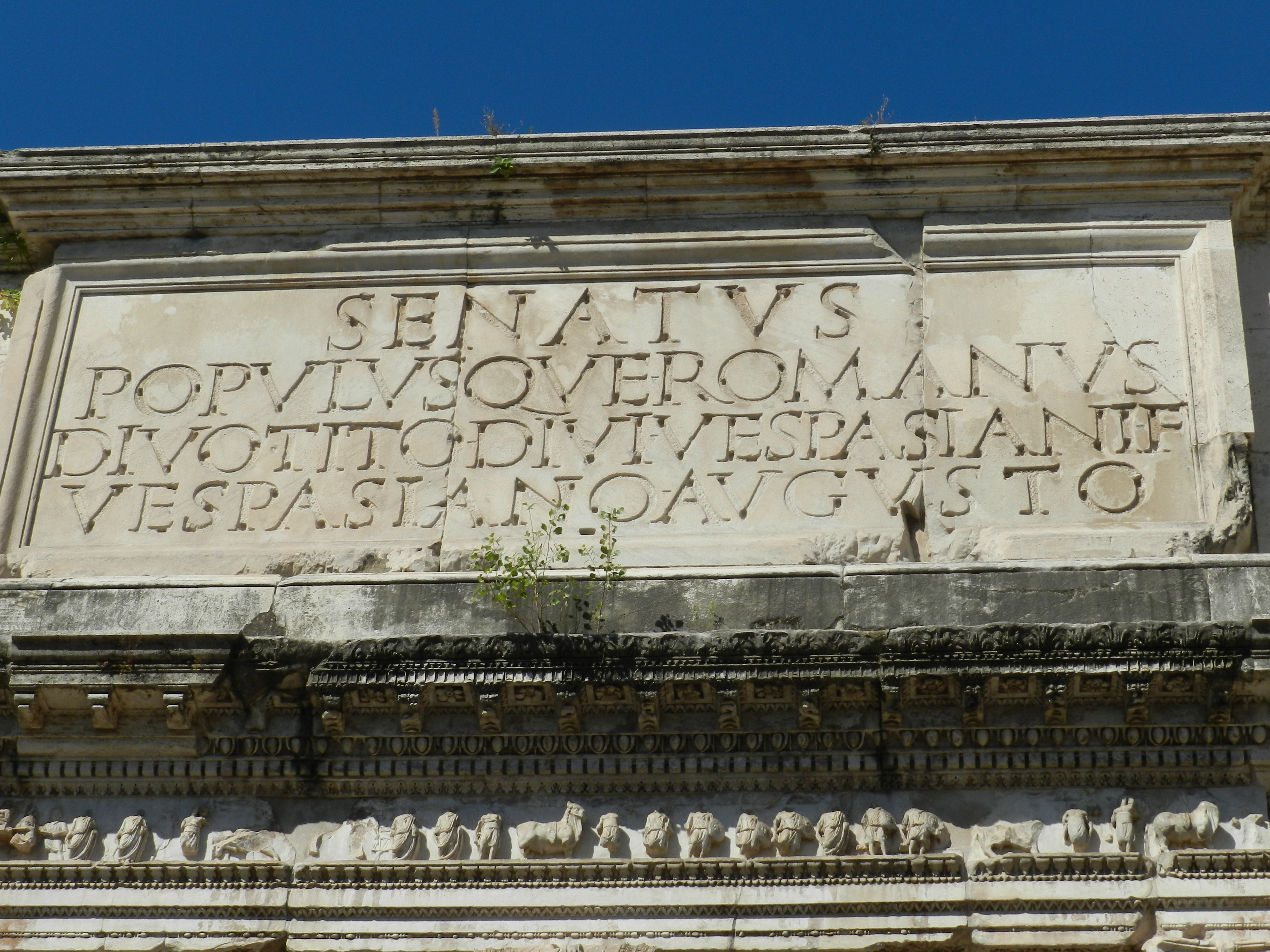 Arch of Titus, Forum Romanum, Rome, Italy